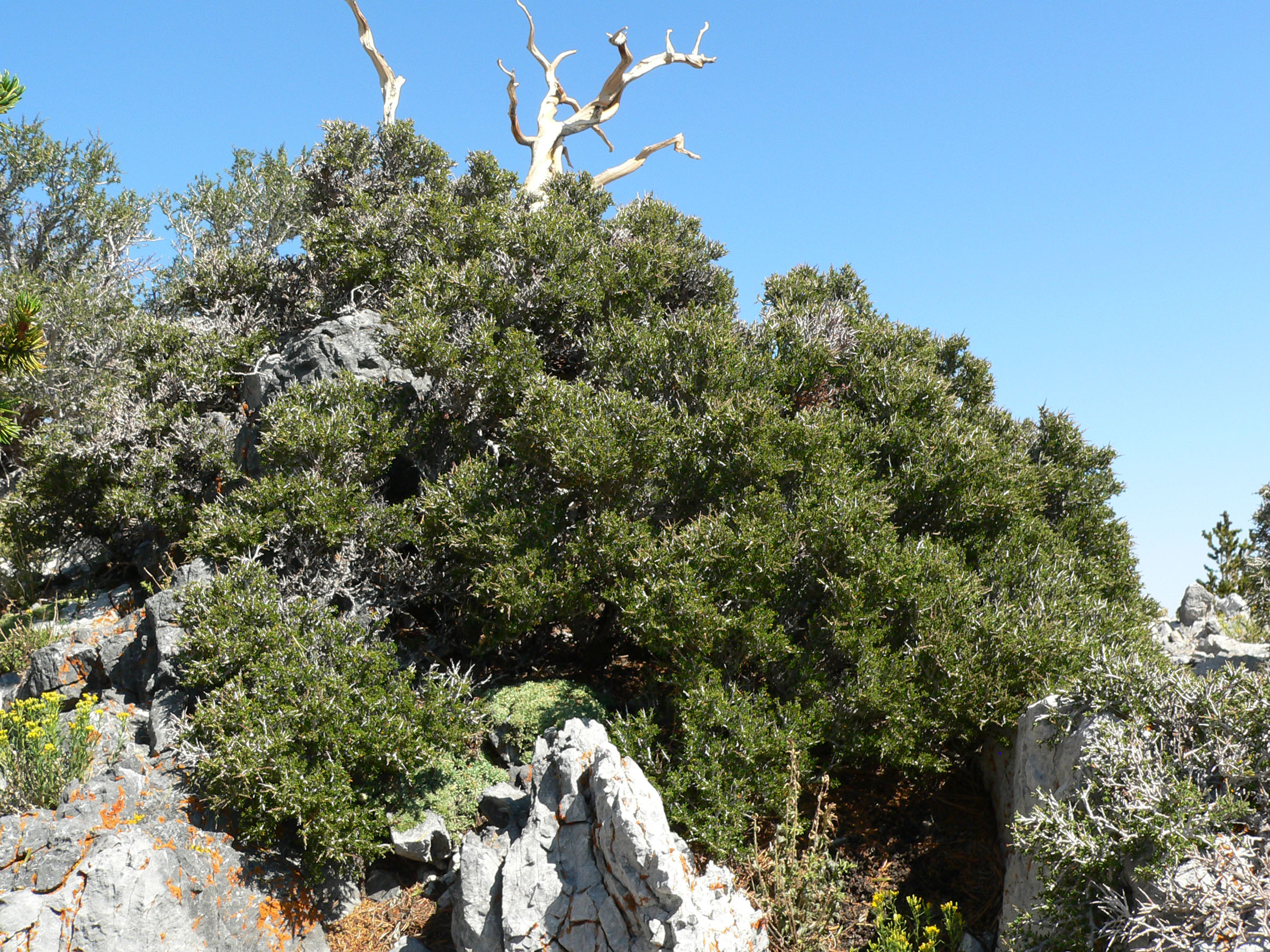 Cercocarpus intricatus near the North Loop trail, Spring Mountains, southern Nevada (elev. about 2700 m)